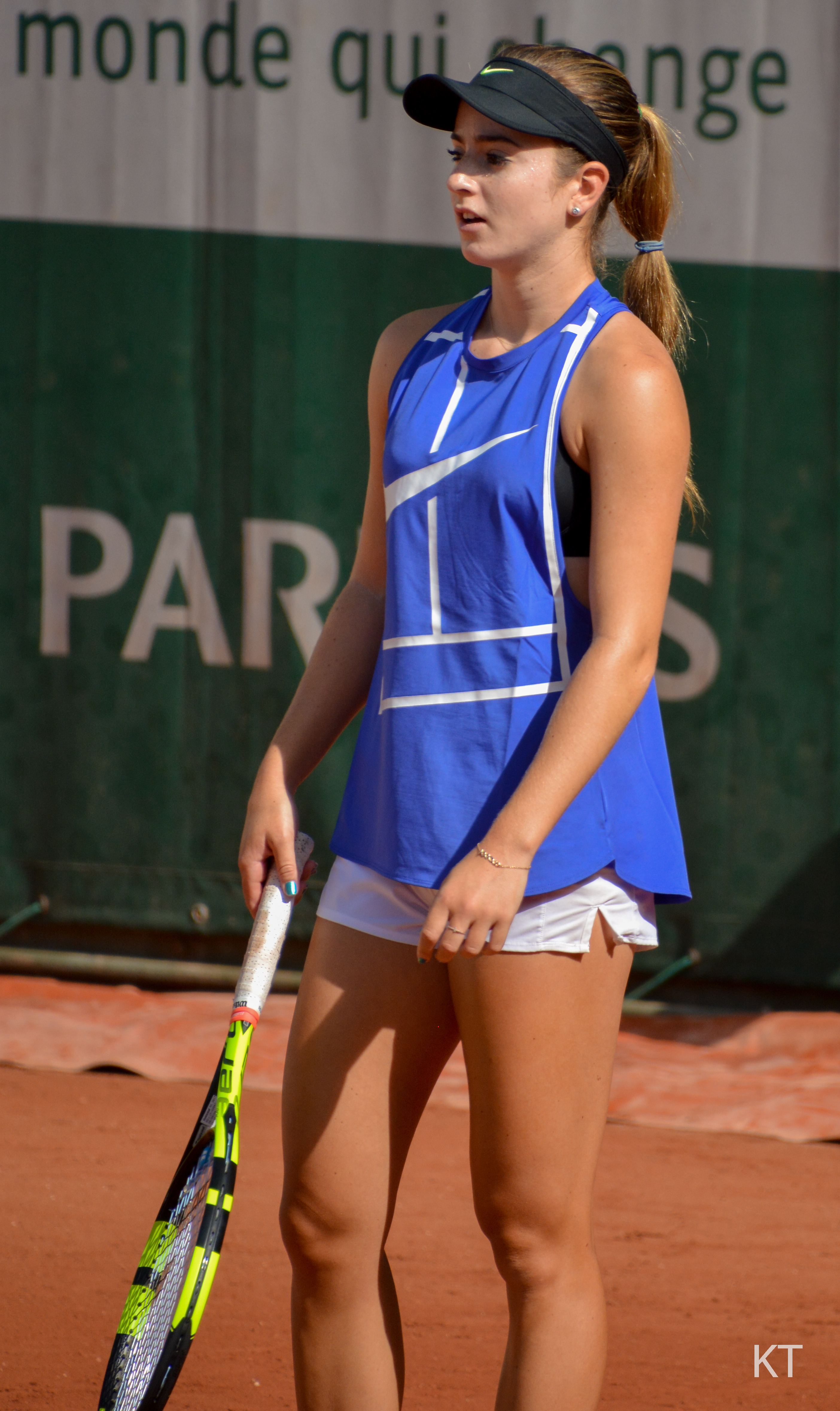 Catherine Bellis at Roland Garros 2017